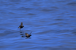 Oceanites oceanicus Wilson's Storm Petrel.